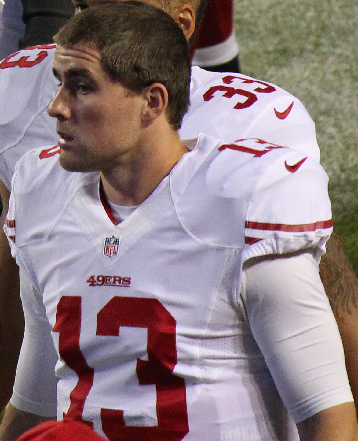 Dylan Thompson, a player on the National Football League.